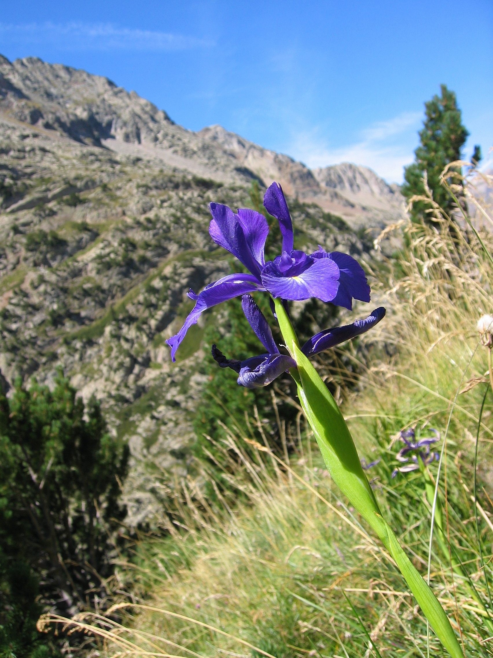 Iris_xiphioides Near Embalse de Respomuso, Pyrenees, Spain